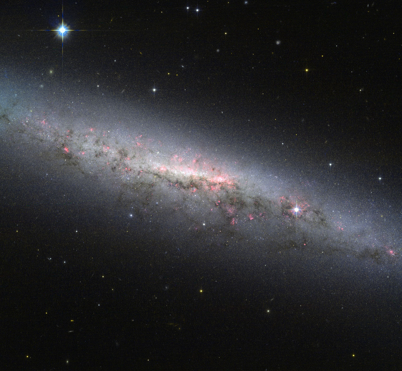 This image portrays a view of the galaxy NGC 7090, as seen by the NASA/ESA Hubble Space Telescope. The galaxy is viewed edge-on from the Earth, meaning we cannot easily see the spiral arms, which are full of young, hot stars. However, a side-on view shows the galaxy’s disc and the bulging central core, where typically a large group of cool old stars are packed in a compact, spheroidal region. In addition, there are two interesting features present in the image that are worth mentioning: First, we are able to distinguish an intricate pattern of pinkish red regions over the whole galaxy. This indicates the presence of clouds of hydrogen gas. These structures trace the location of ongoing star formation, visual confirmation of recent studies that classify NGC 7090 as an actively star-forming galaxy. Second, we observe dust lanes, depicted as dark regions inside the disc of the galaxy. In NGC 7090, these regions are mostly located in lower half of the galaxy, showing an intricate filamentary structure. Looking from the outside in through the whole disc, the light emitted from the bright center of the galaxy is absorbed by the dust, silhouetting the dusty regions against the bright light in the background. The image was taken using the Wide Field Channel of the Advanced Camera for Surveys aboard the Hubble Space Telescope and combines orange light (colored blue here), infrared (colored red) and emissions from glowing hydrogen gas (also in red). A version of this image of NGC 7090 was entered into the Hubble’s Hidden Treasures Image Processing Competition by contestant Rasid Tugral.